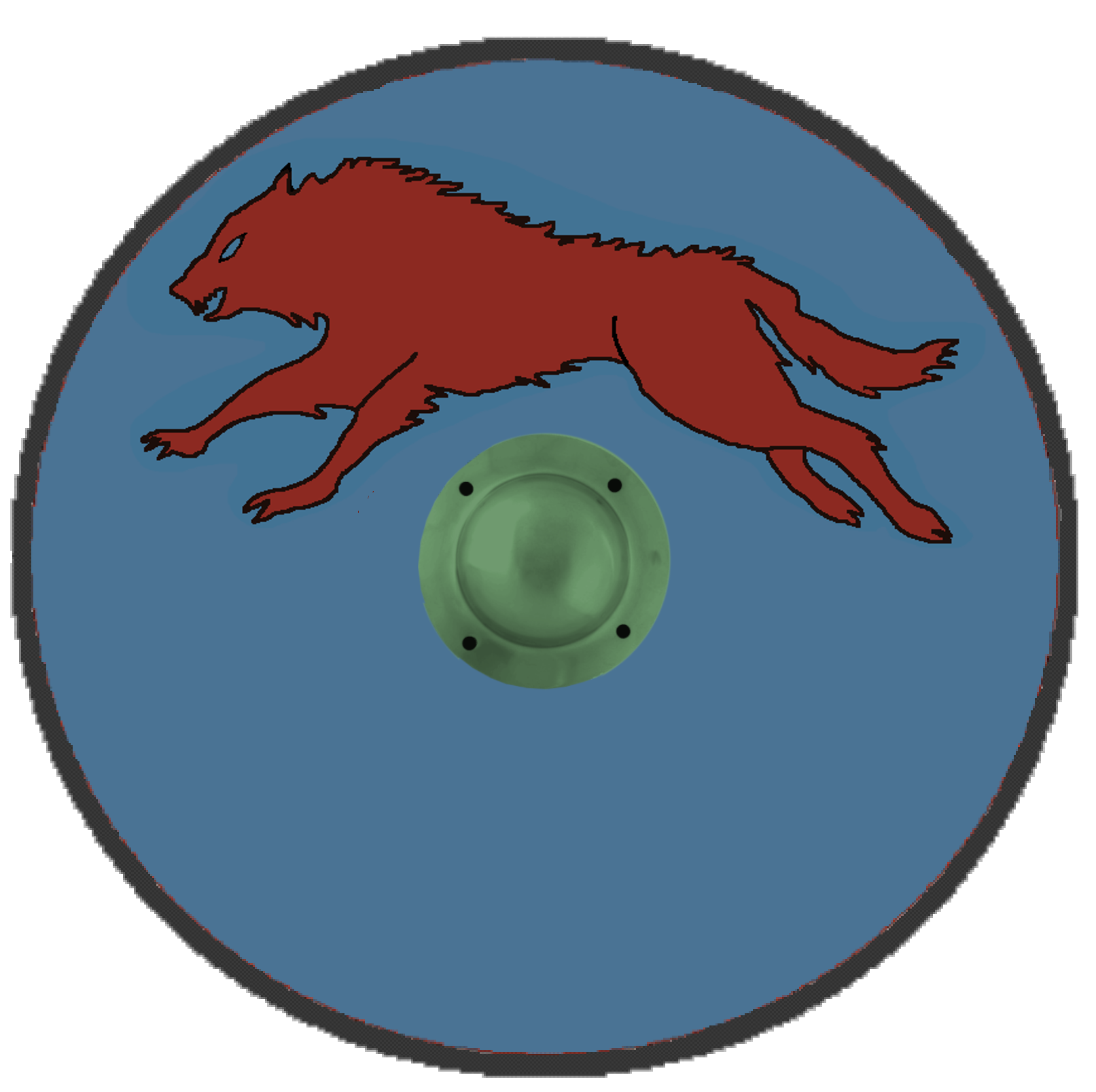 Shield pattern o.t. Ascarii iuniores, listed as one of auxilia palatina units in the Magister Peditum's infantry roster; it assigned to the Comes Hispenias., Notitia Dignitatum, 5th century (Bodleian Manuscript).